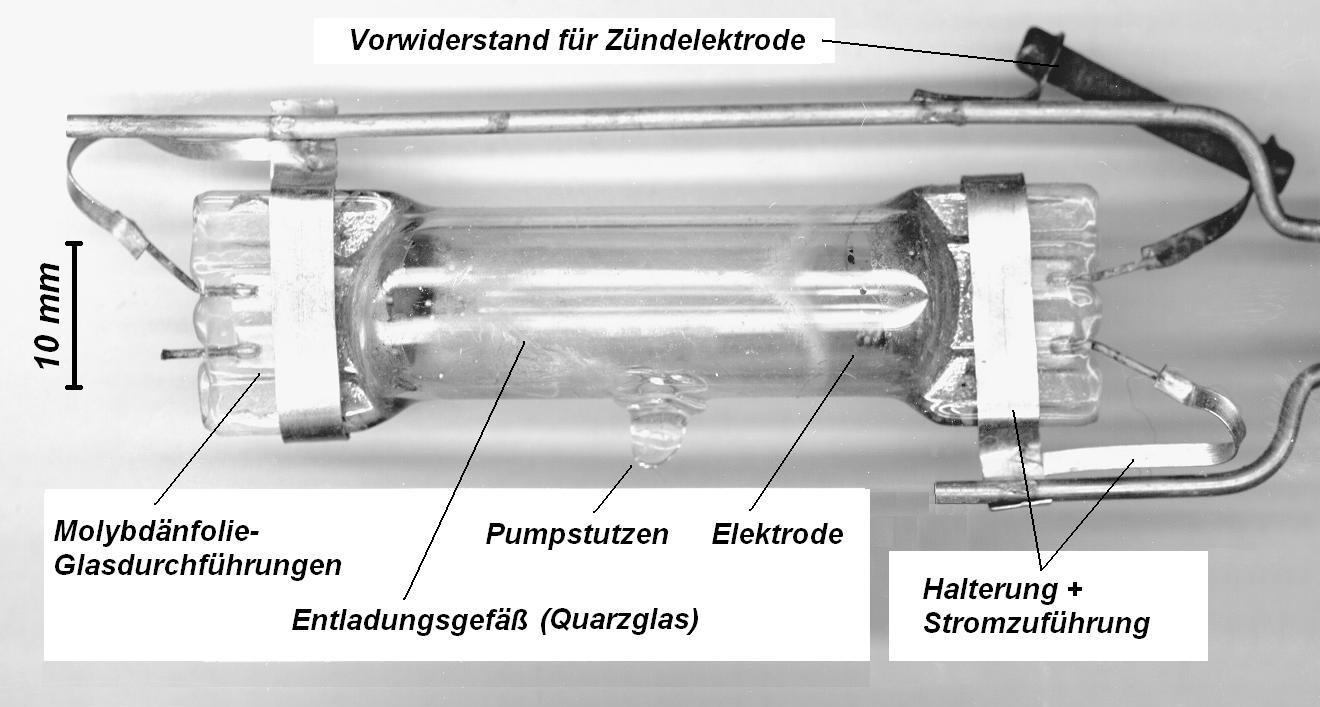 Jar for electric discharges of a high pressure mercury-vapor lamp